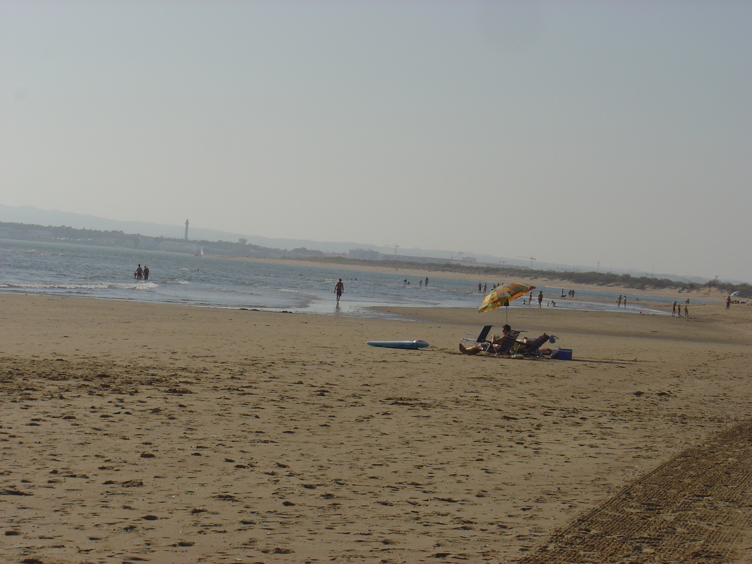 Isla Canela beach, Spain